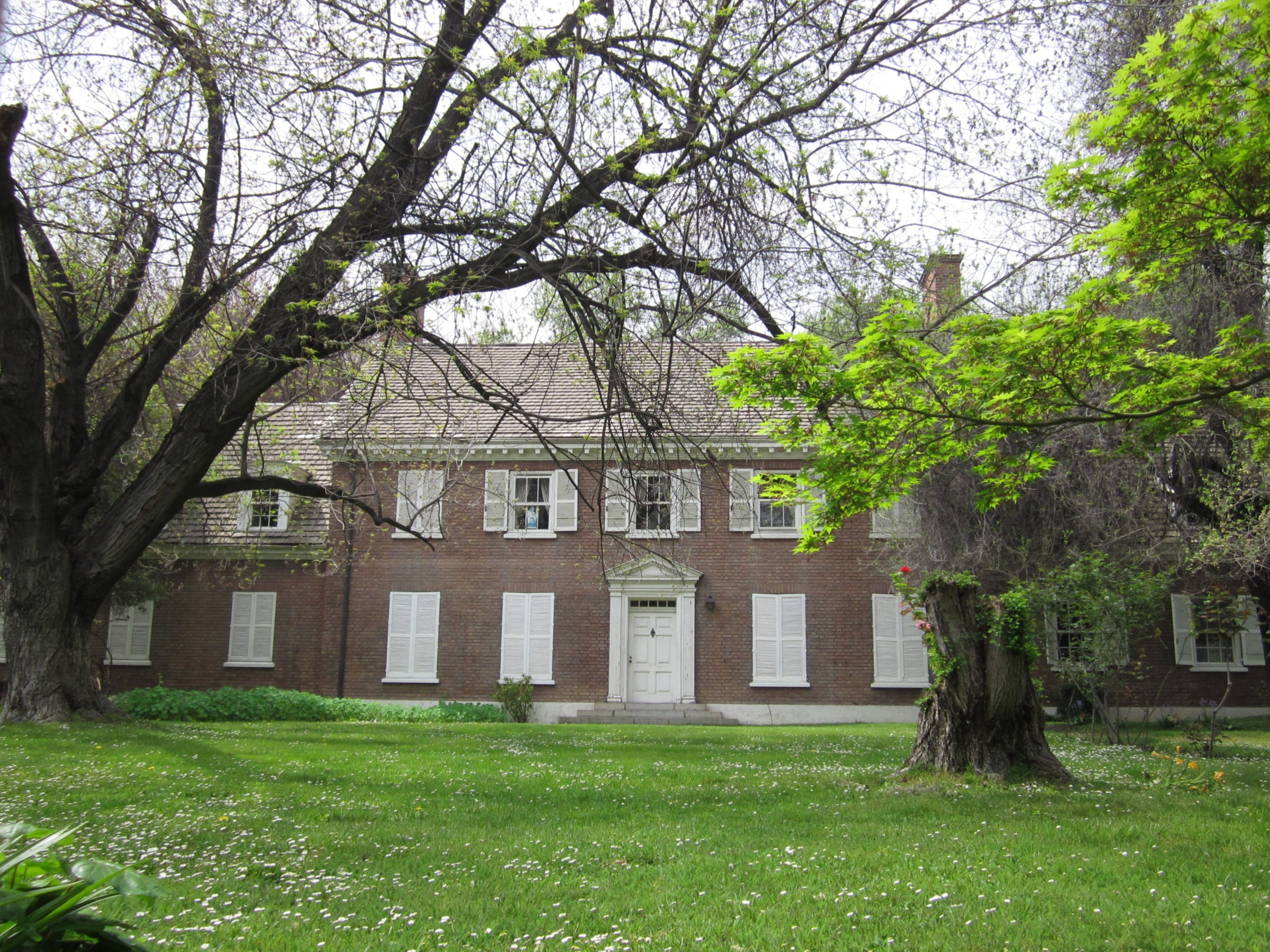 Vista frontal de Casa de Asturias This is a photo of a national monument in Chile: 2167